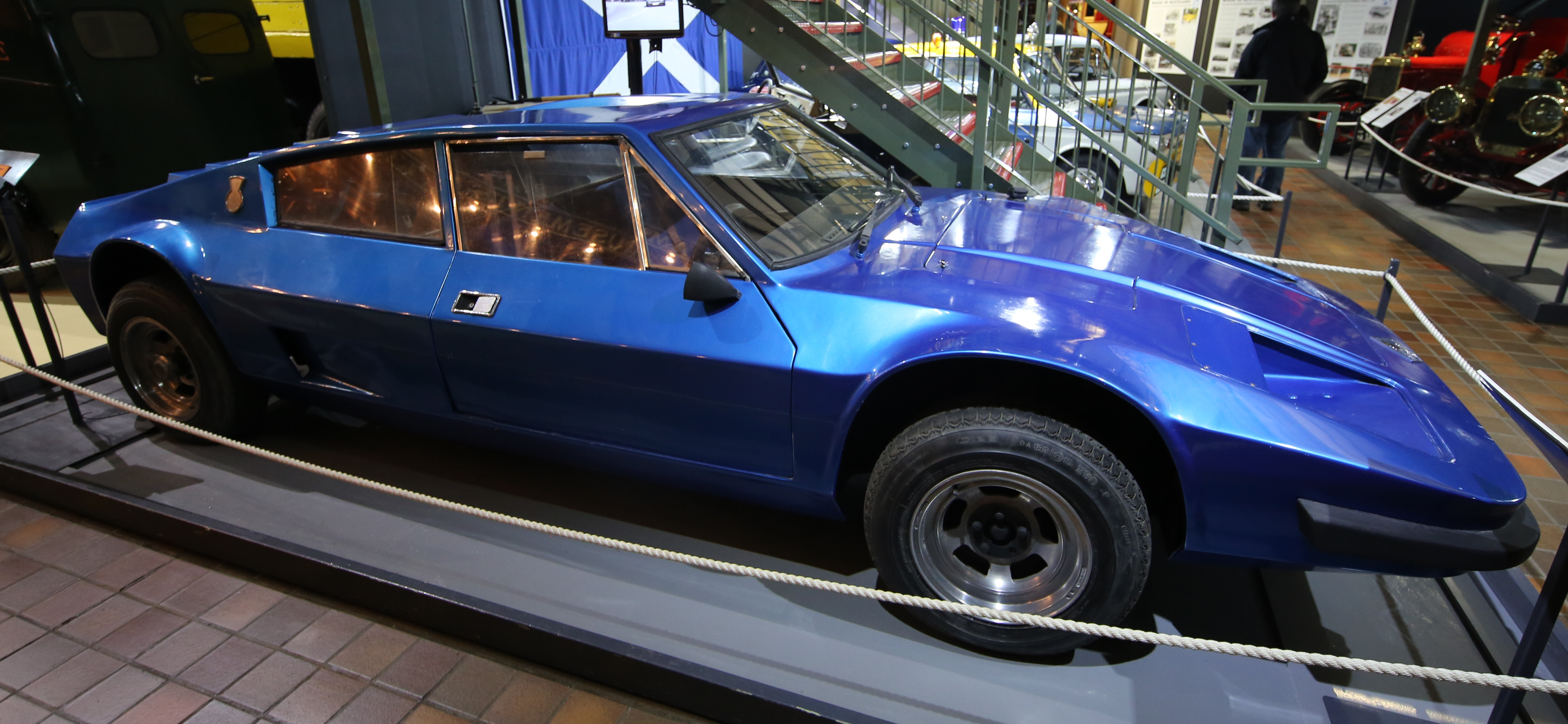 Photo of the Argyll turbo GT car